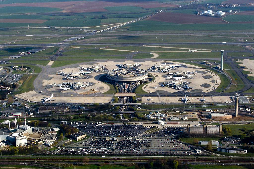 Terminal 1 at Charles de Gaule International Airport